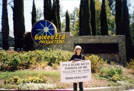 Protester at Scientology facility Gold Base in California